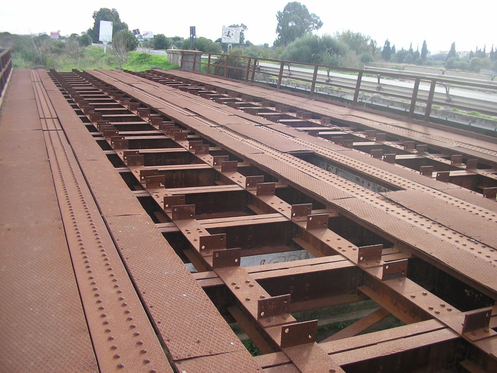 The double track bridge above Rio Santu Milanu torrent near Is Gannaus (Carbonia), along the former railway San Giovanni Suergiu-Iglesias, in Sardinia, Italy.